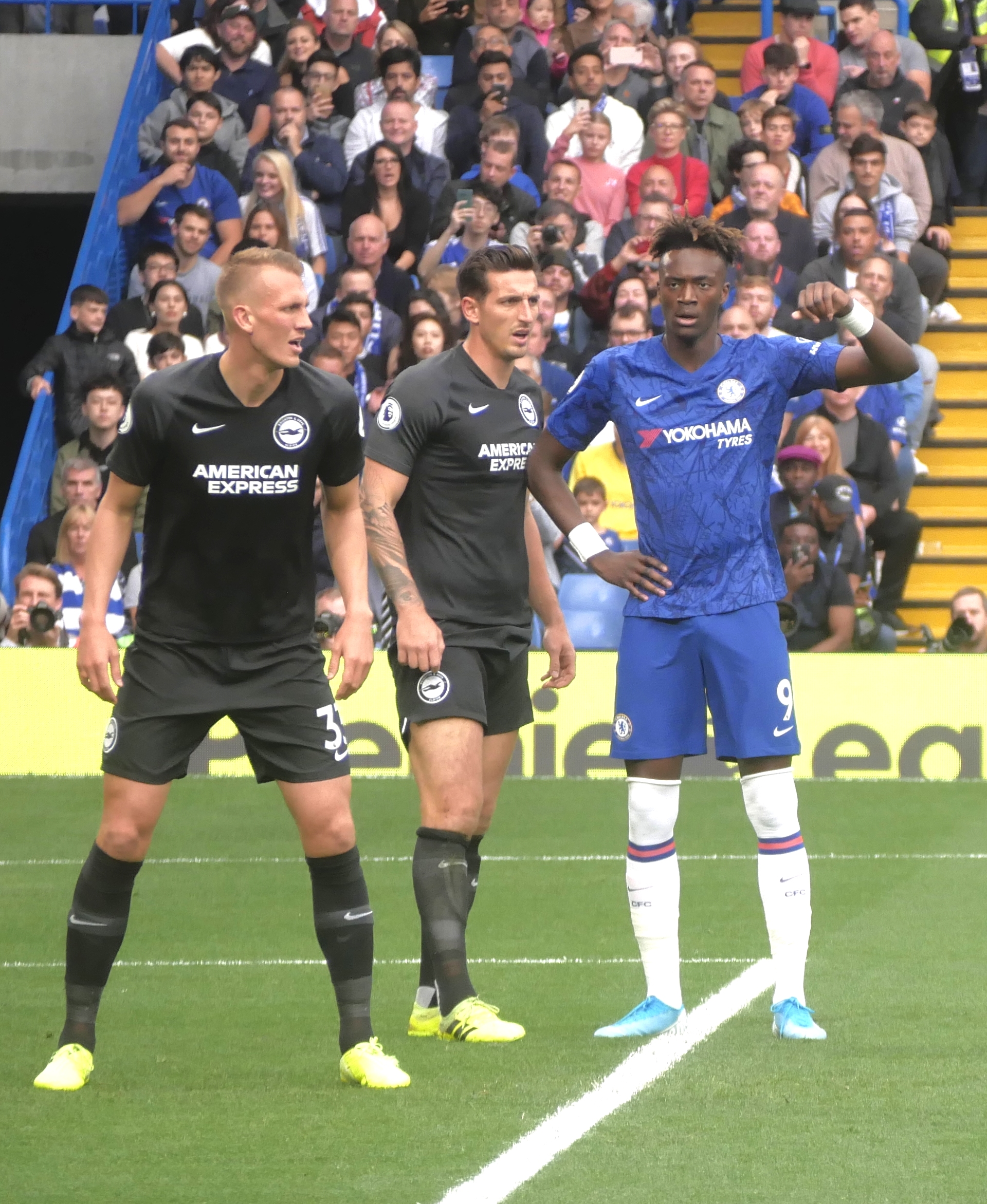 Tammy Abraham Chelsea v Brighton Oct 2019